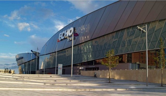 The Echo arena Newly constructed arena and conference centre near Albert Dock.